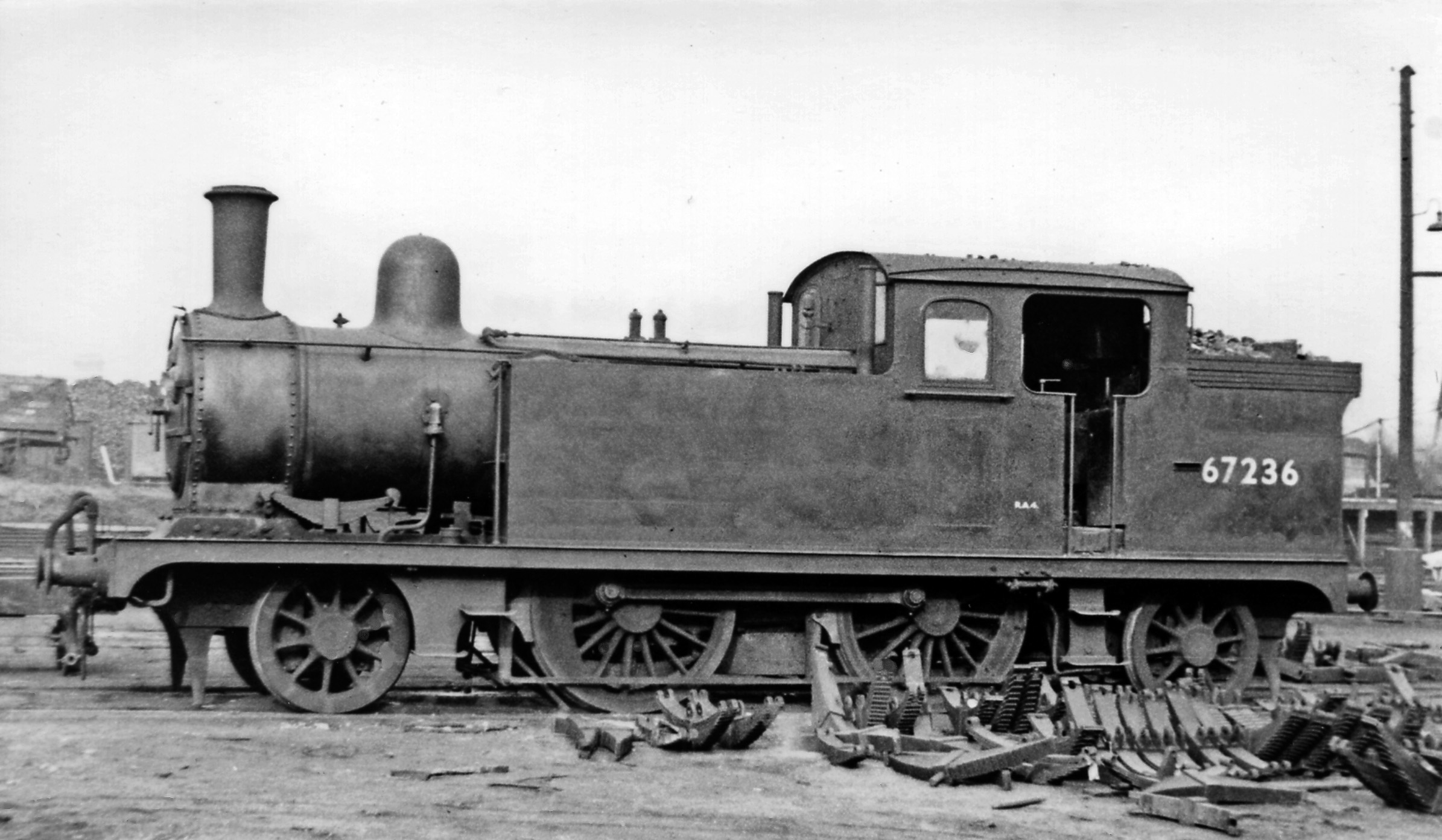 Ex-Great Eastern 2-4-2T at Cambridge Locomotive Depot. View westward, the main Shed being to the left. No. 67236 was one of the F6 2-4-2T's, an enlarged Holden version of the Worsdell F4/F5 tank engines for London suburban services, which were all dispersed into the country after World War Two on the extension of the LPTB Central Line into NE London. (Note the absence of any ownership designation). (See also TL4657 : An old Great Eastern 4-4-0 at Cambridge Locomotive Depot, TL4657 : Cambridge Locomotive Depot, with a 'Super-Claud' 4-4-0 and TL4657 : A Great Eastern 2-4-0 of Victorian times at Cambridge Locomotive Depot).